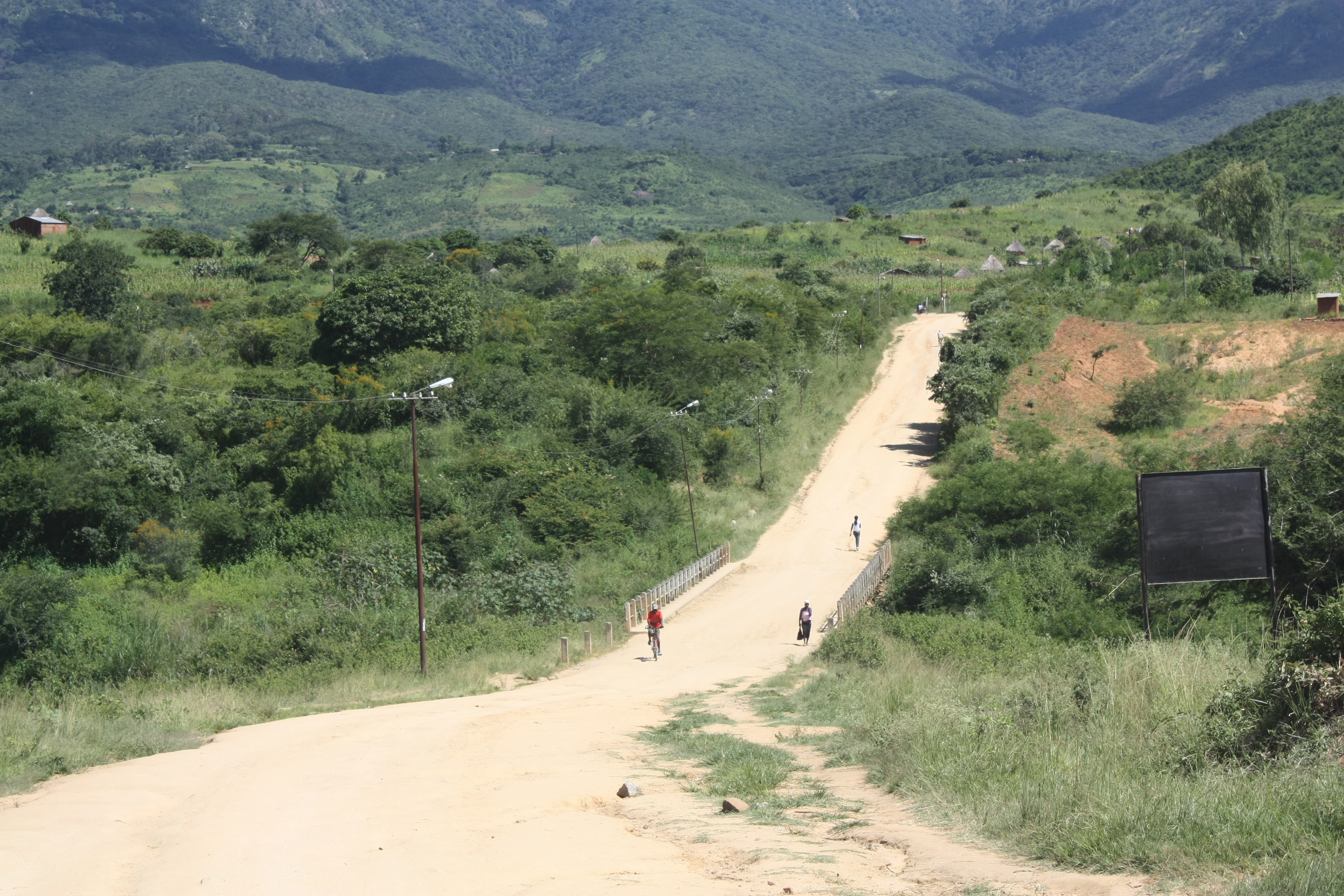 Close to Machipanda, border Mozambique/Zimbabwe